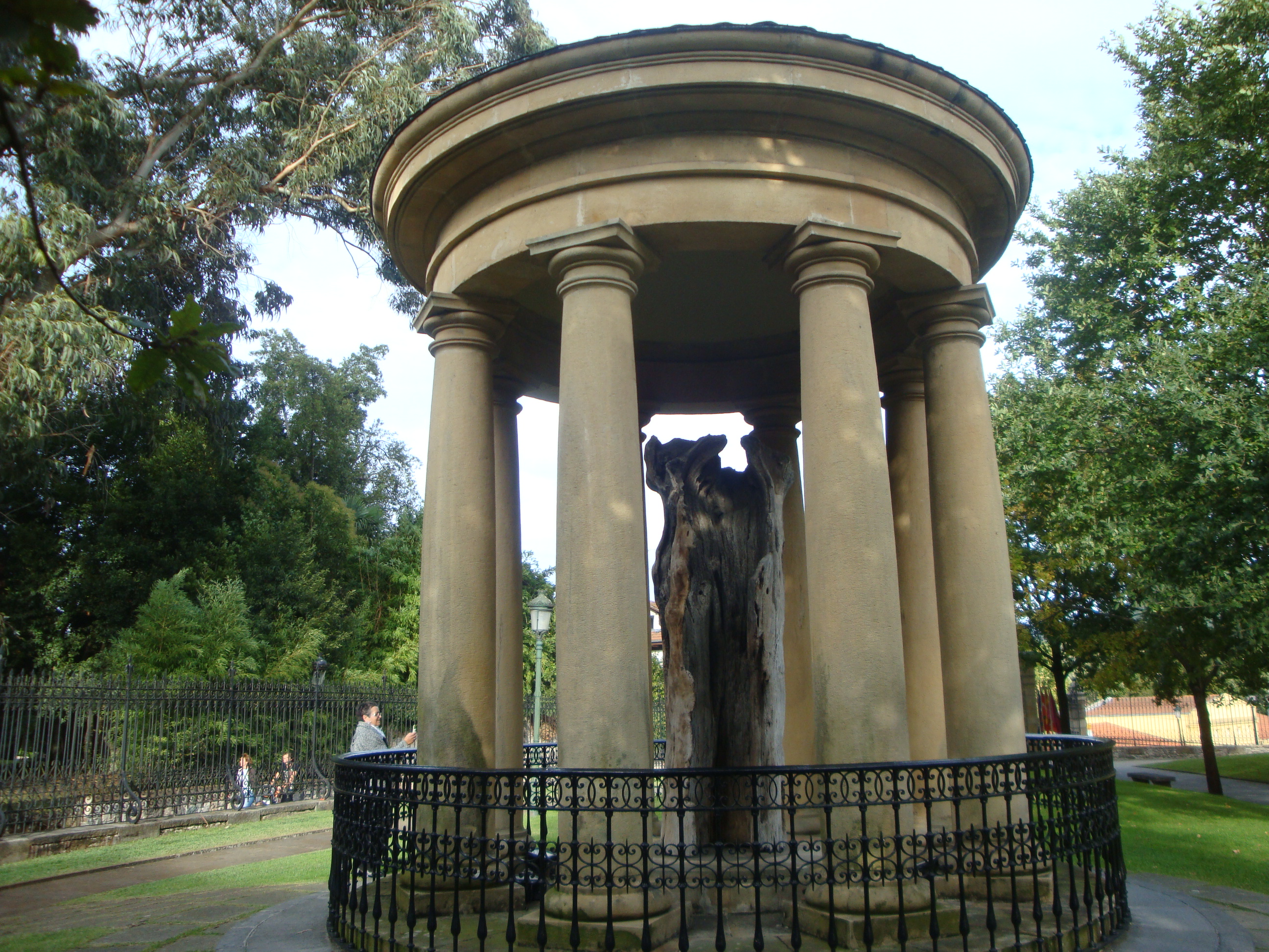 Antiguo roble de Gernika (Vizcaya)